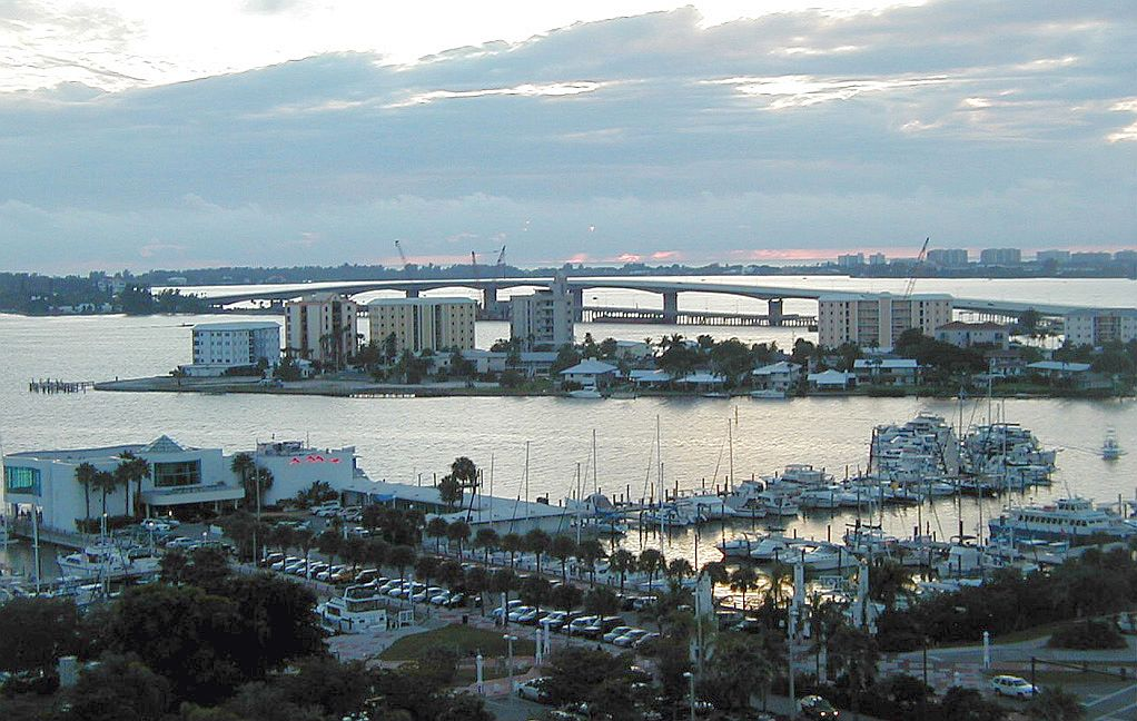 Sarasota Bay and waterfront, Sarasota, Florida